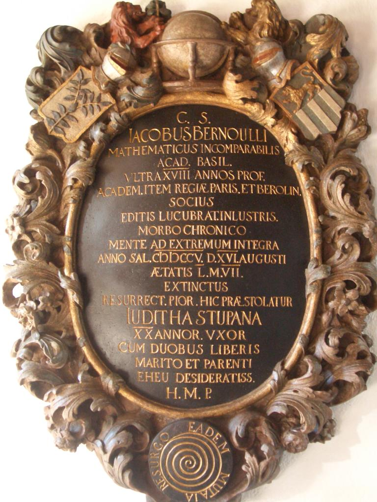 Jakob Bernoulli's tombstone between great and small cloisters of Basel cathedral